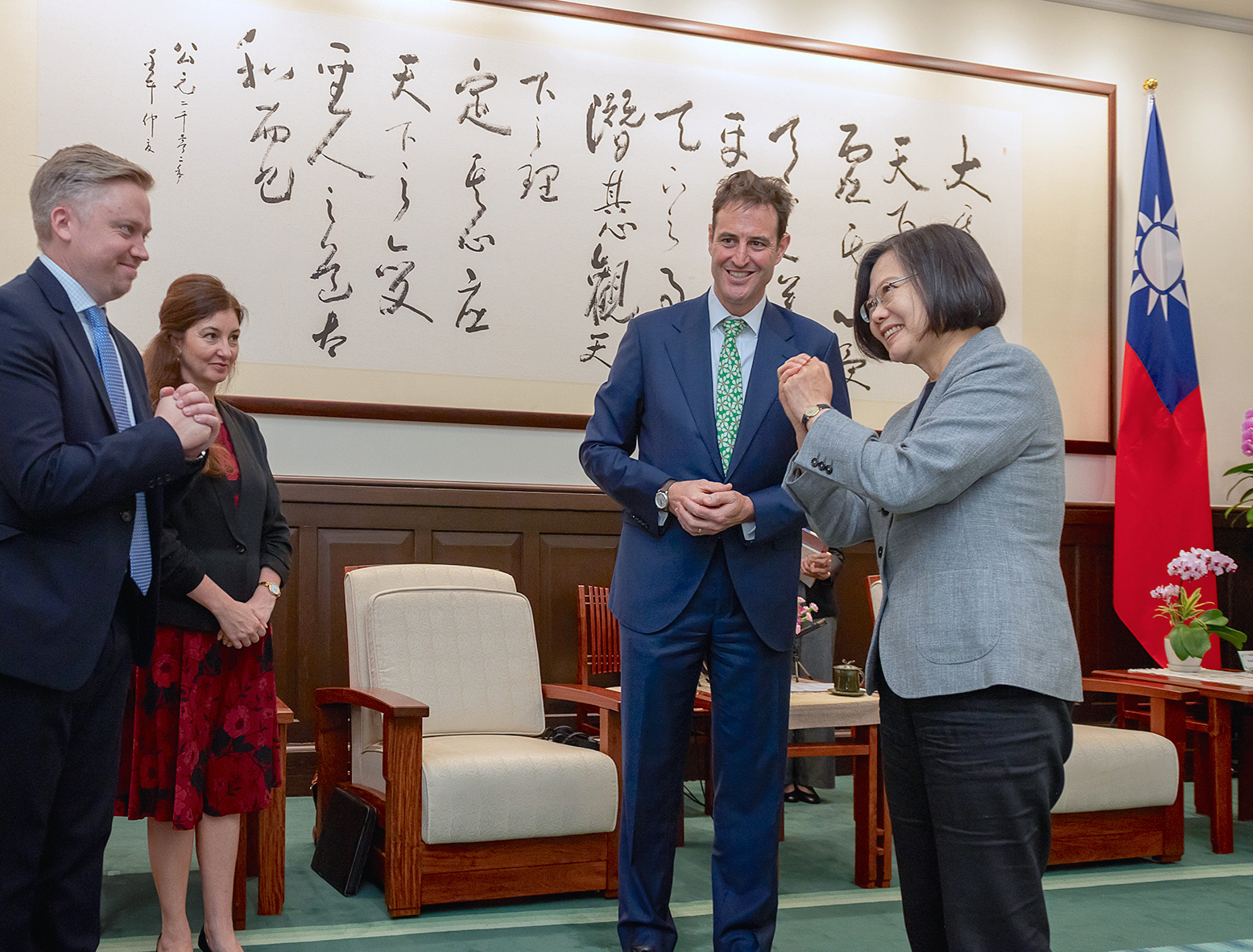 Official Photo by Makoto Lin / Office of the President